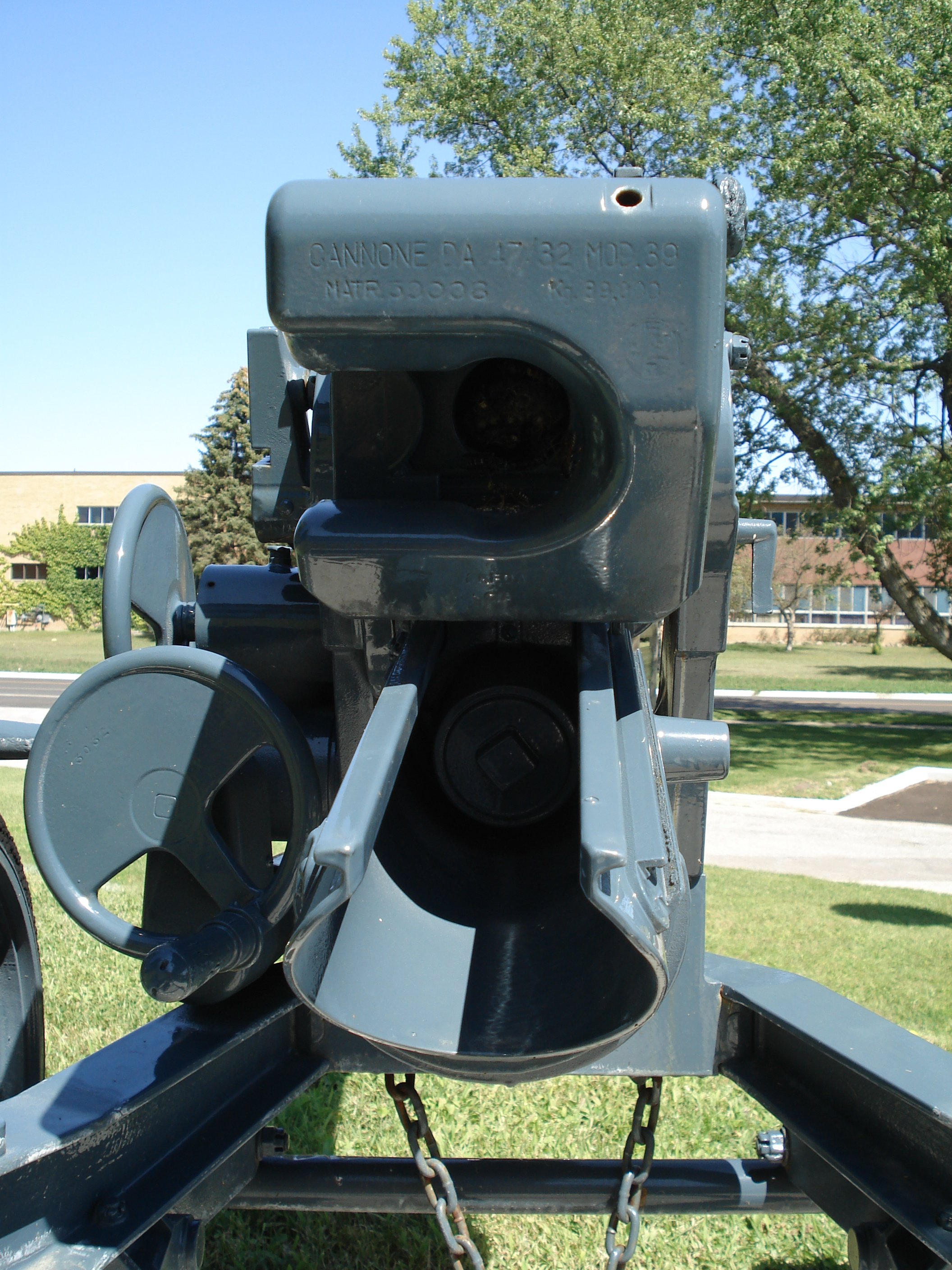 Italian 47 mm anti-tank gun (Cannone da 47/32) displayed on the grounds of CFB Borden (Base Borden Military Museum). The canon stamp states: CANNONE DA 47/32 MOD. 39 Photo taken on August 12, 2006. Source: Photo by me, User:Balcer.